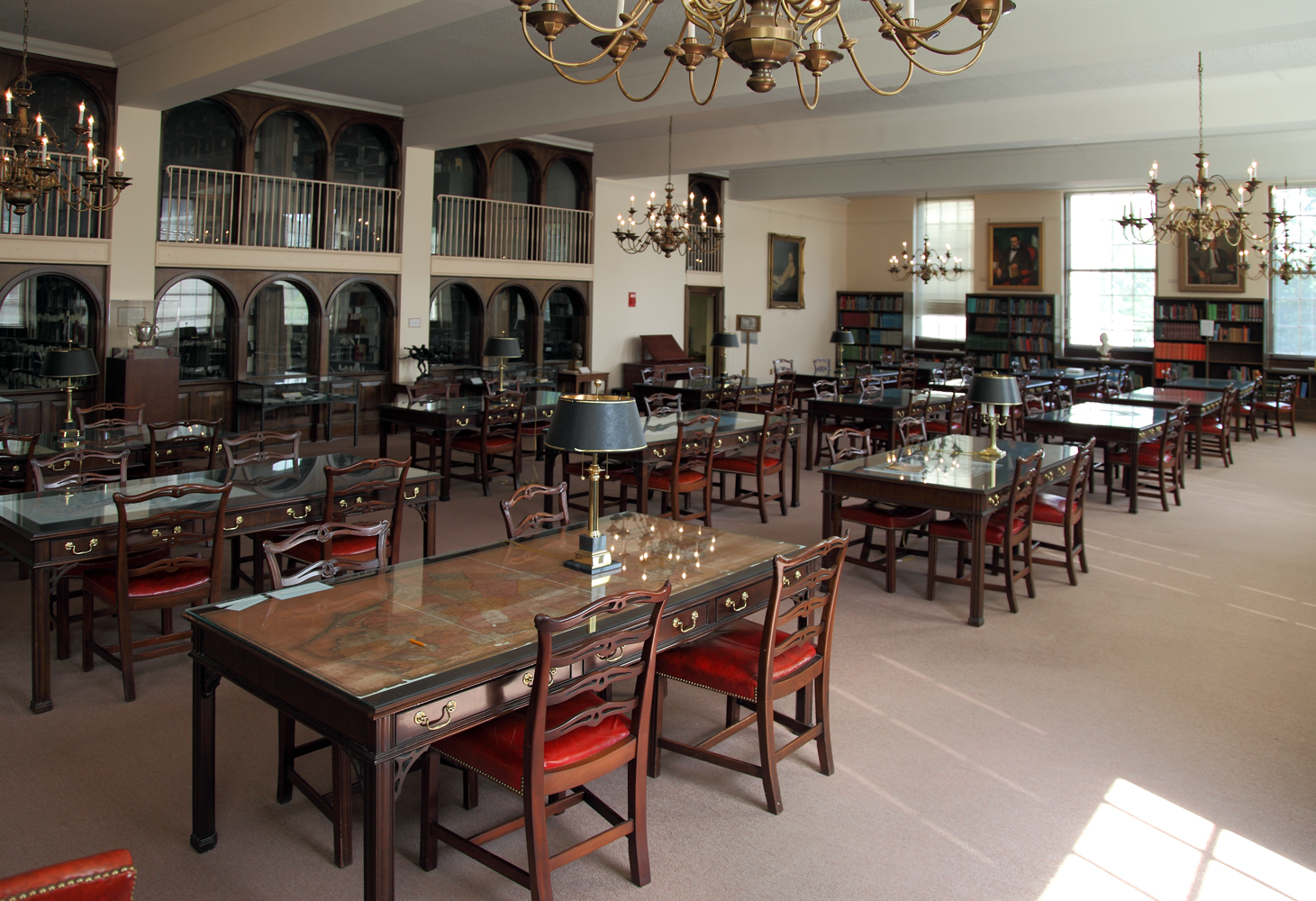 The North Carolina Collection reading room in the Wilson Library at UNC.